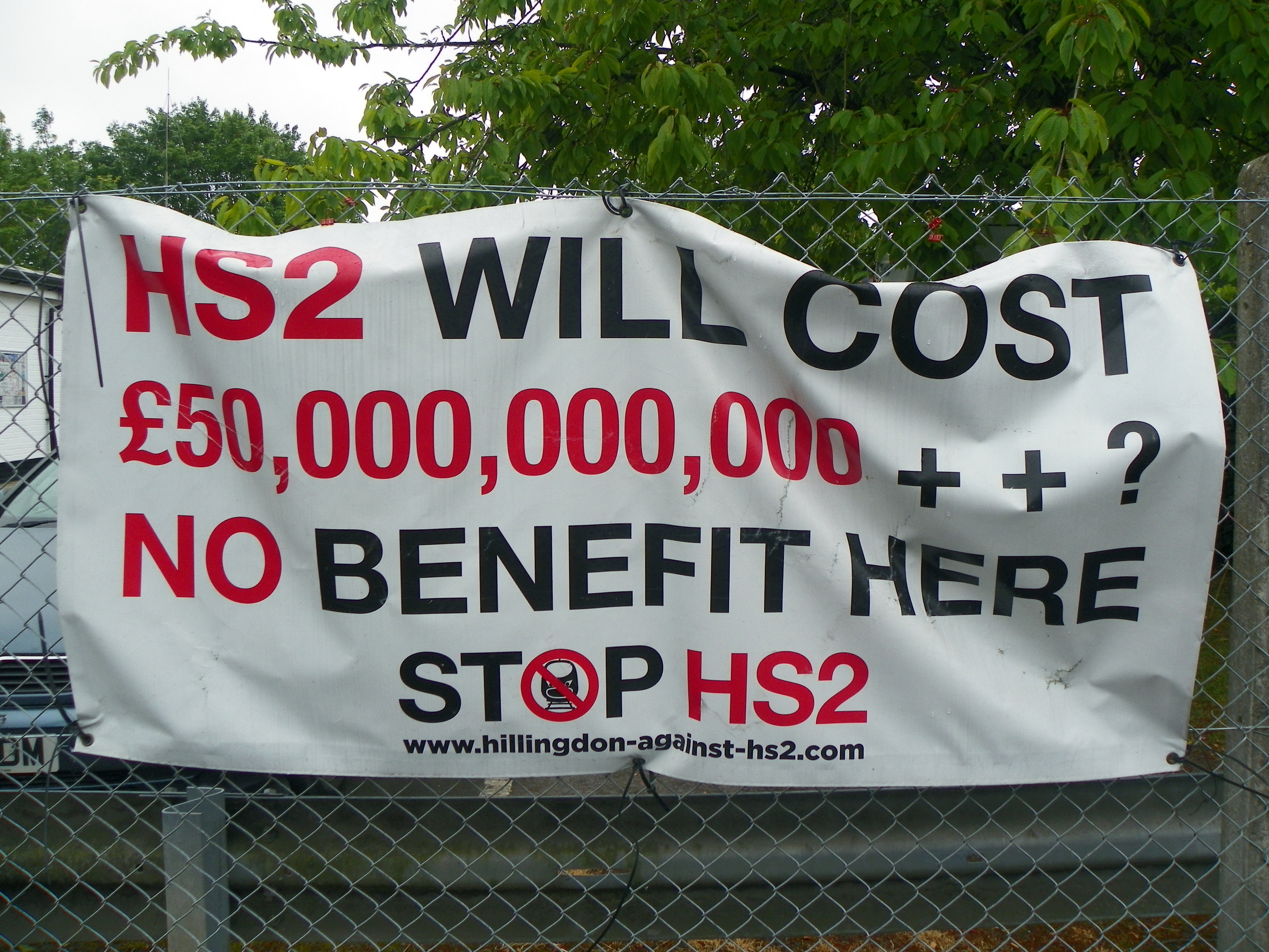 HS2 protest banner, Harefield, Hillingdon, Greater London.